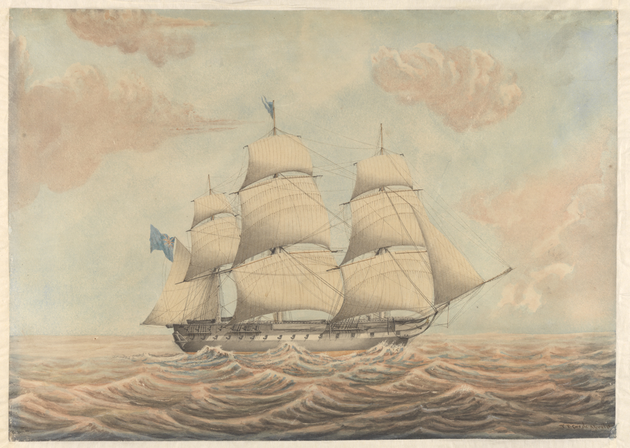 H.M.S. Stag 1830 Medium includes pen and brown ink.; Signed by artist and dated.